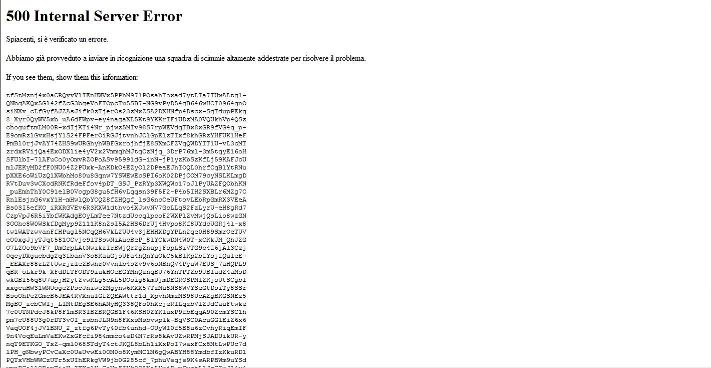 youtube error